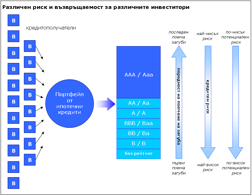 Different risk and return of investment for the different investors